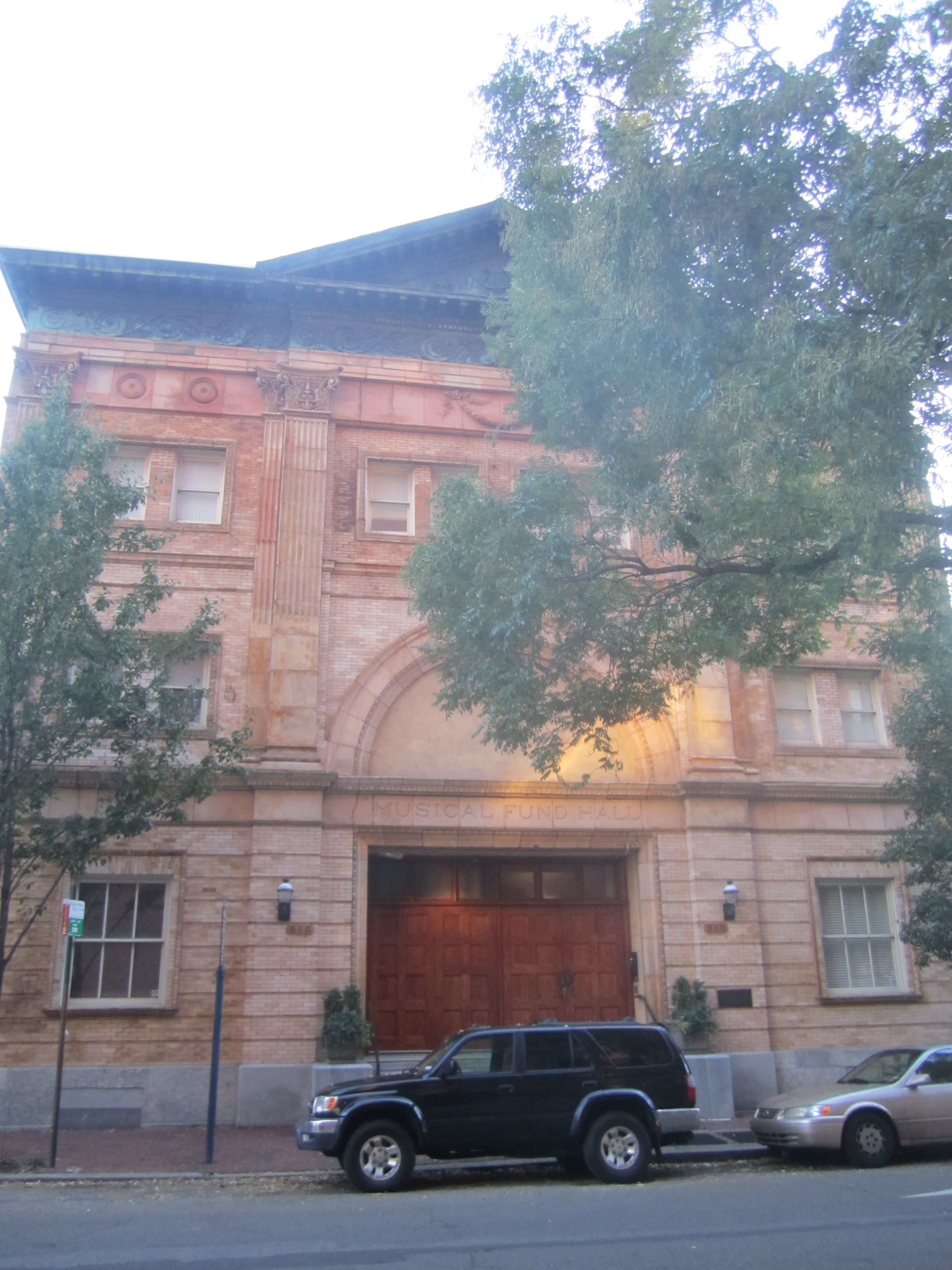 Picture of the Music Fund Society Hall.